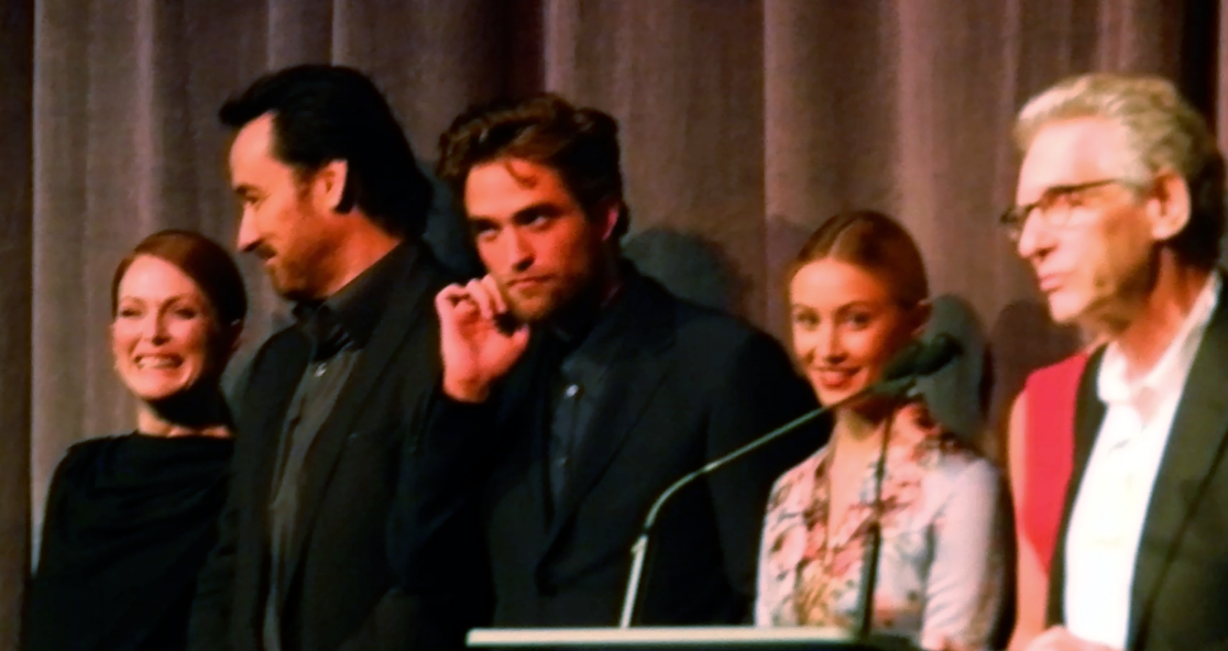 David Cronenberg and MTTS Cast at 2014 TIFF